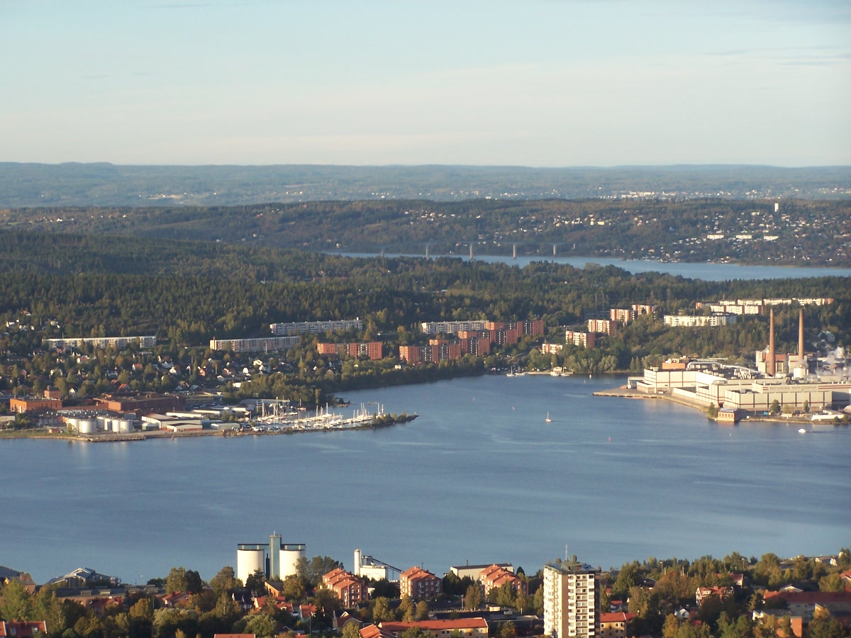 Ortviken/Korsta i Sundsvall, Sweden, with the bridge to Alnö above (view from Södra Berget)